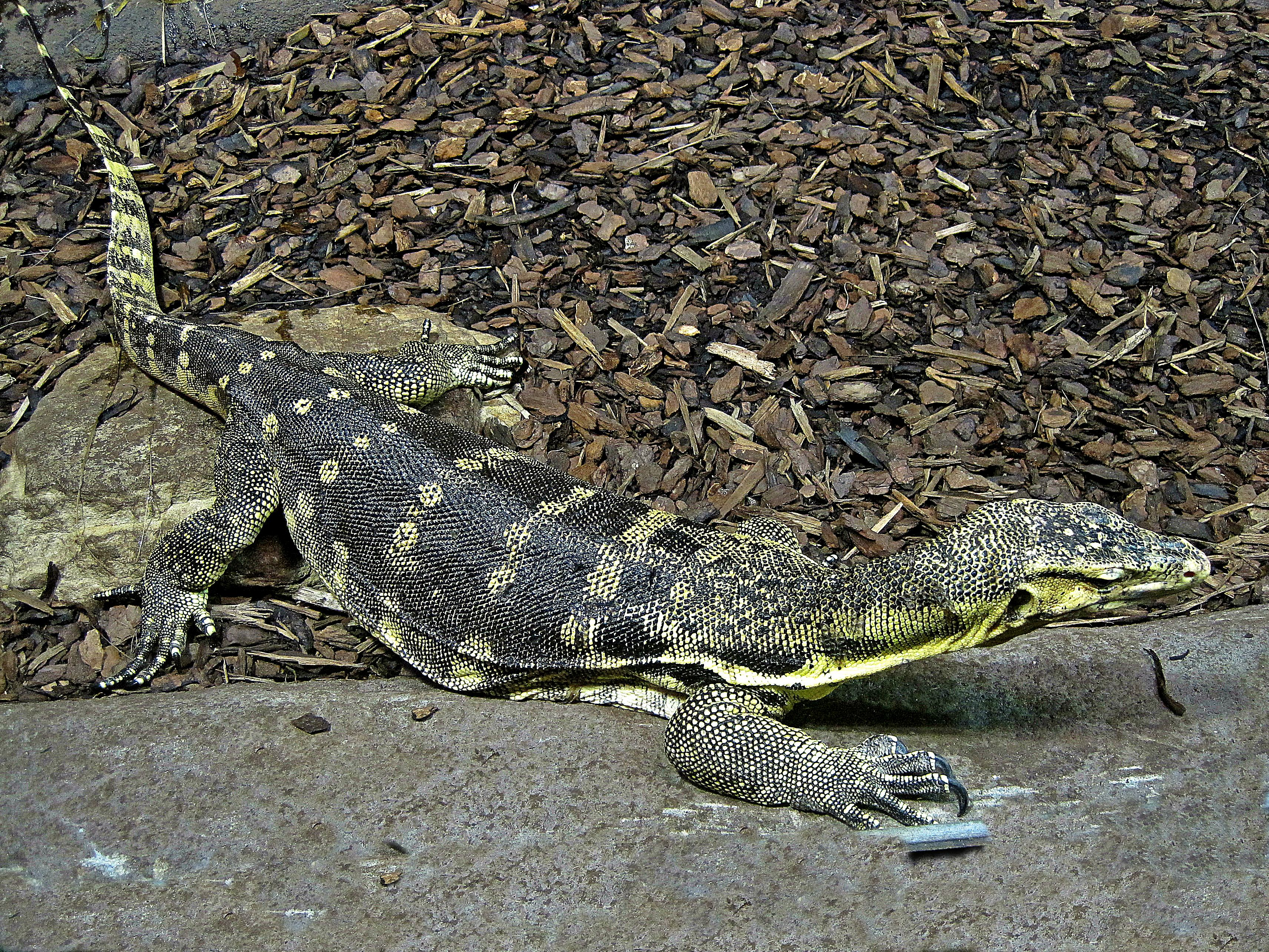 Varanus salvator (Water monitor), Burgers zoo, Arnhem, the Netherlands